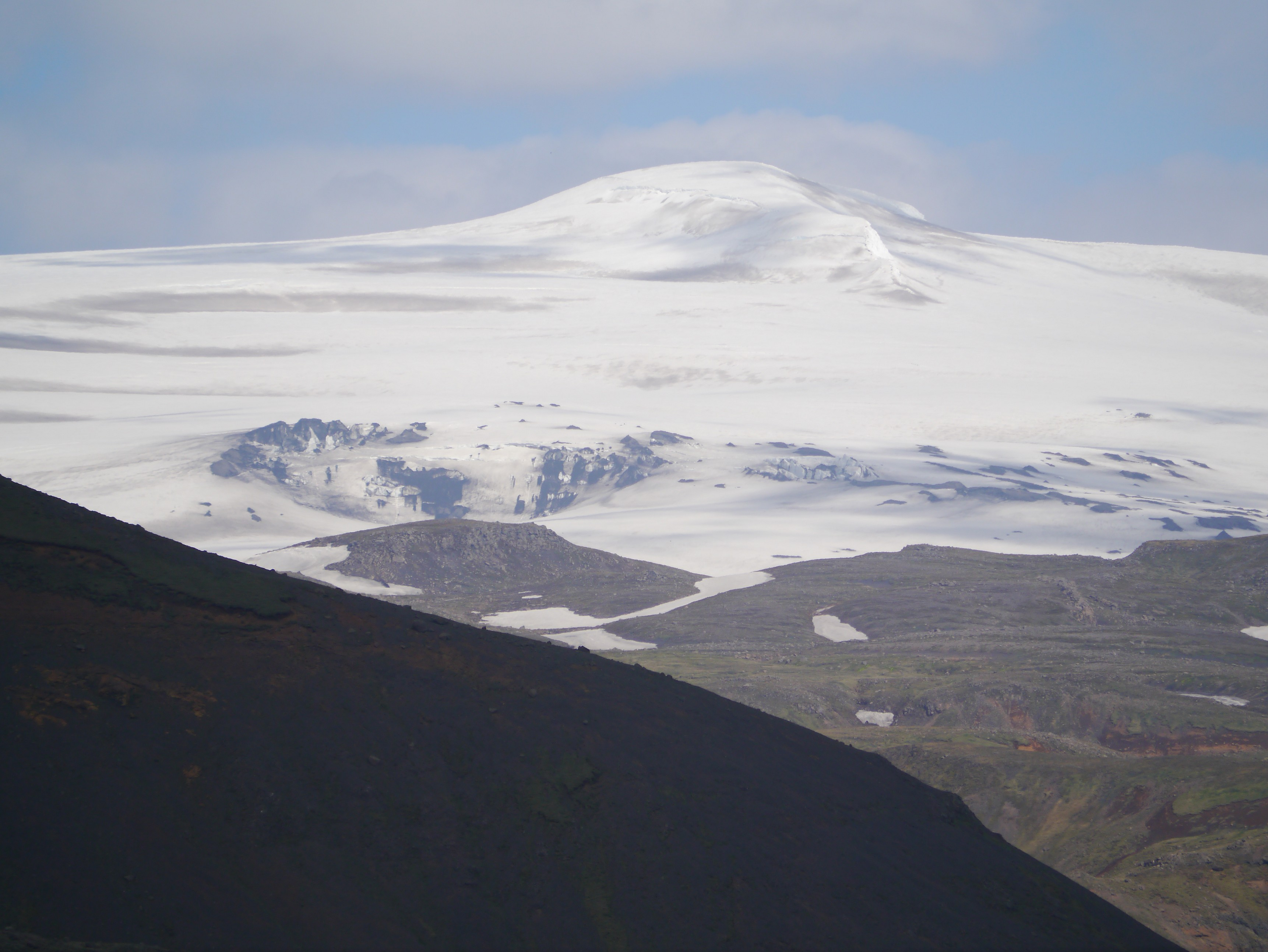 Mýrdalsjökull Glacier, Iceland